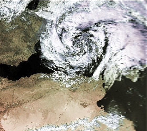 This image shows a cyclone in the Mediterranean Sea on October 7, 1996 at 1202 UTC. This image was produced from data from NOAA-14, provided by NOAA.